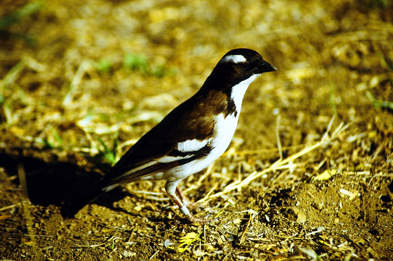 White-browed sparrow-weaver (Plocepasser mahali) near Lake Baringo, Kenya